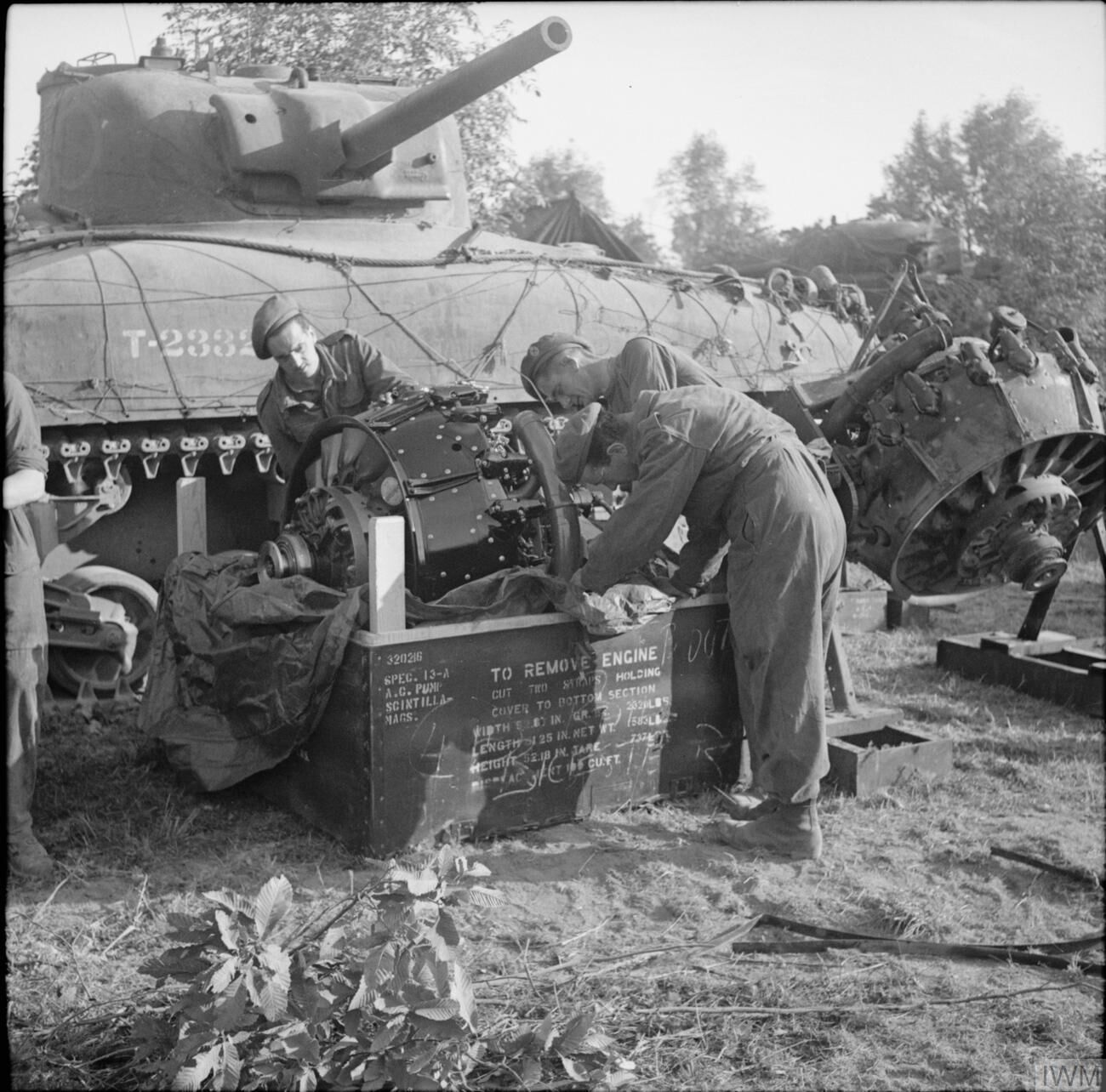 The British Army in Normandy 1944 REME fitters prepare to install a new engine into a Sherman tank at 8th Armoured Brigade workshops, 9 August 1944.